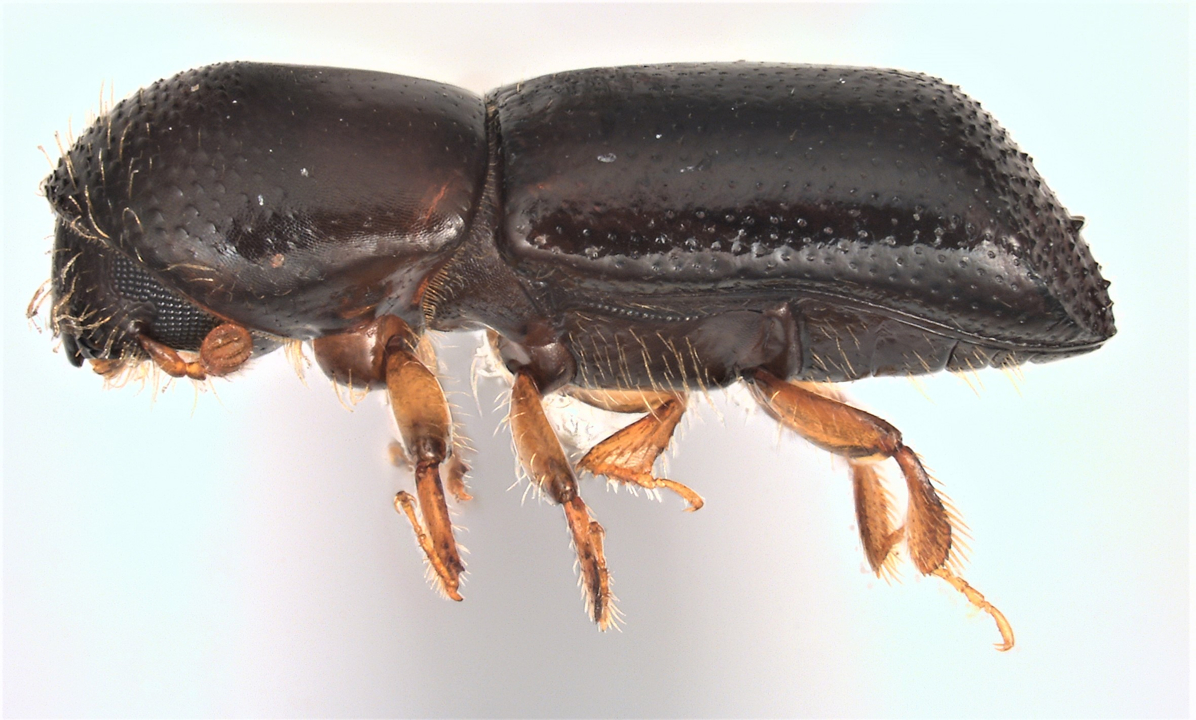 Lateral view of an adult female redbay ambrosia beetle (Xyleborus glabratus Eichhoff), collected in Alachua County, Florida, USA. Length: 2.2 mm.